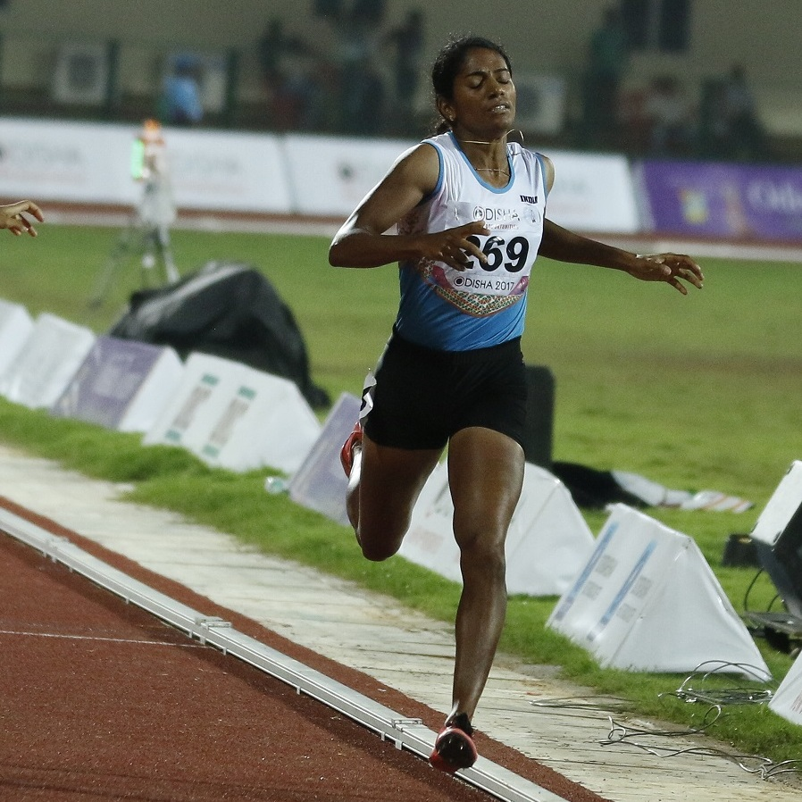 2017 Asian Athletics Championships at the Kalinga Stadium in Bhubaneswar, India